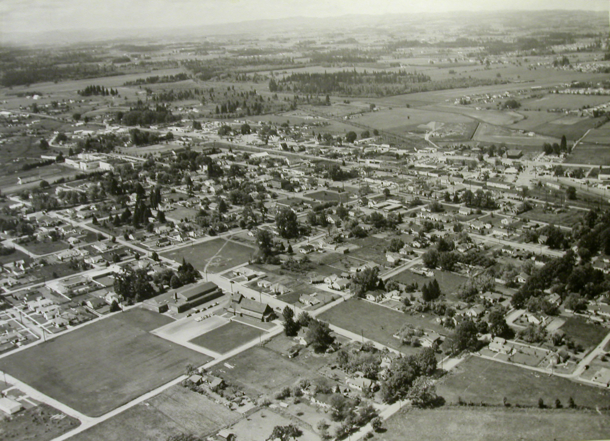 View of Beaverton 1950's. Historical images of Beaverton, Oregon.